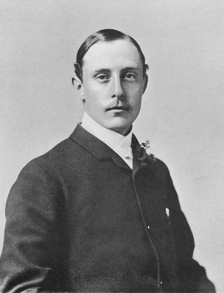 British tennis player and Wimbledon champion William Charles Renshaw